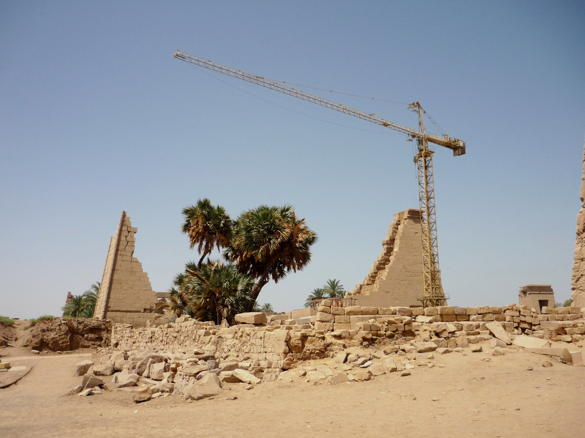 Ninth pylon, Karnak temple of Amun-Ra, Egypt